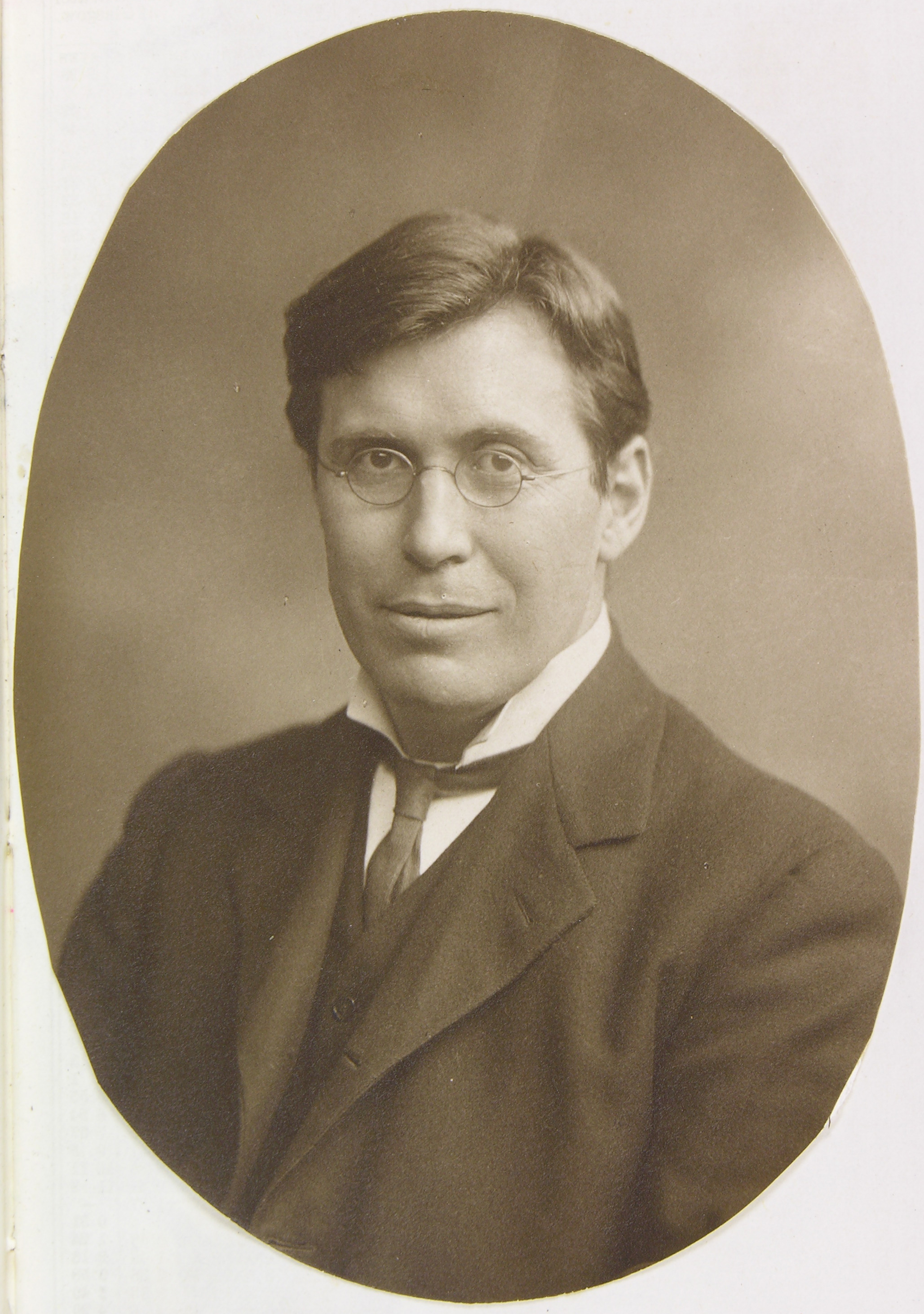 Terrot Reaveley Glover (1869–1943), British classical scholar, and Fellow of St John's College, Cambridge